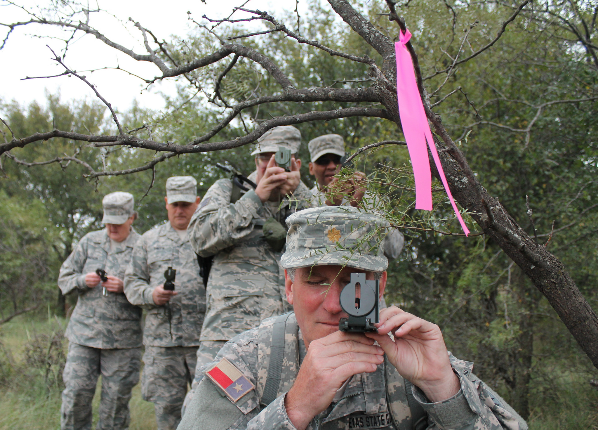 Maj. Gary Sherman, 3rd Battalion, 4th Regiment, Texas State Guard, uses a compass to determine his bearing during a Land Navigation joint training exercise in Henrietta, Texas, October 11, 2014. Sherman participated in the exercise with the 482nd Air Support Group, 4th Air Wing, Texas State Guard and the 3rd Battalion, A Company (Wichita Falls), Texas Medical Brigade, Texas State Guard which conducted the exercise. (Photo by CW2 Janet Schmelzer, PAO, 4th Regiment, TXSG)